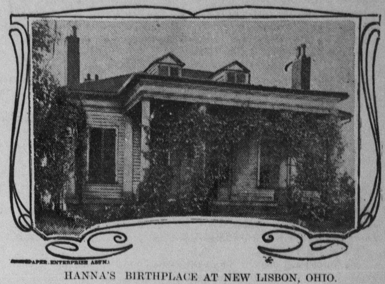 Mark Hanna was born in this house in 1837.